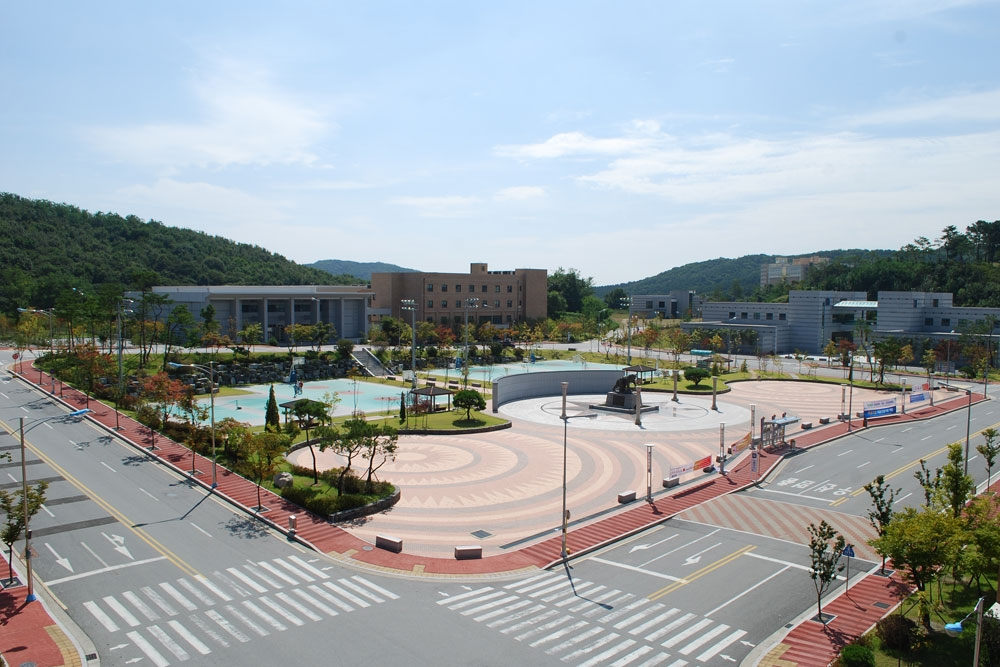 The Square of Peace, Dankook University(Jukjeon)